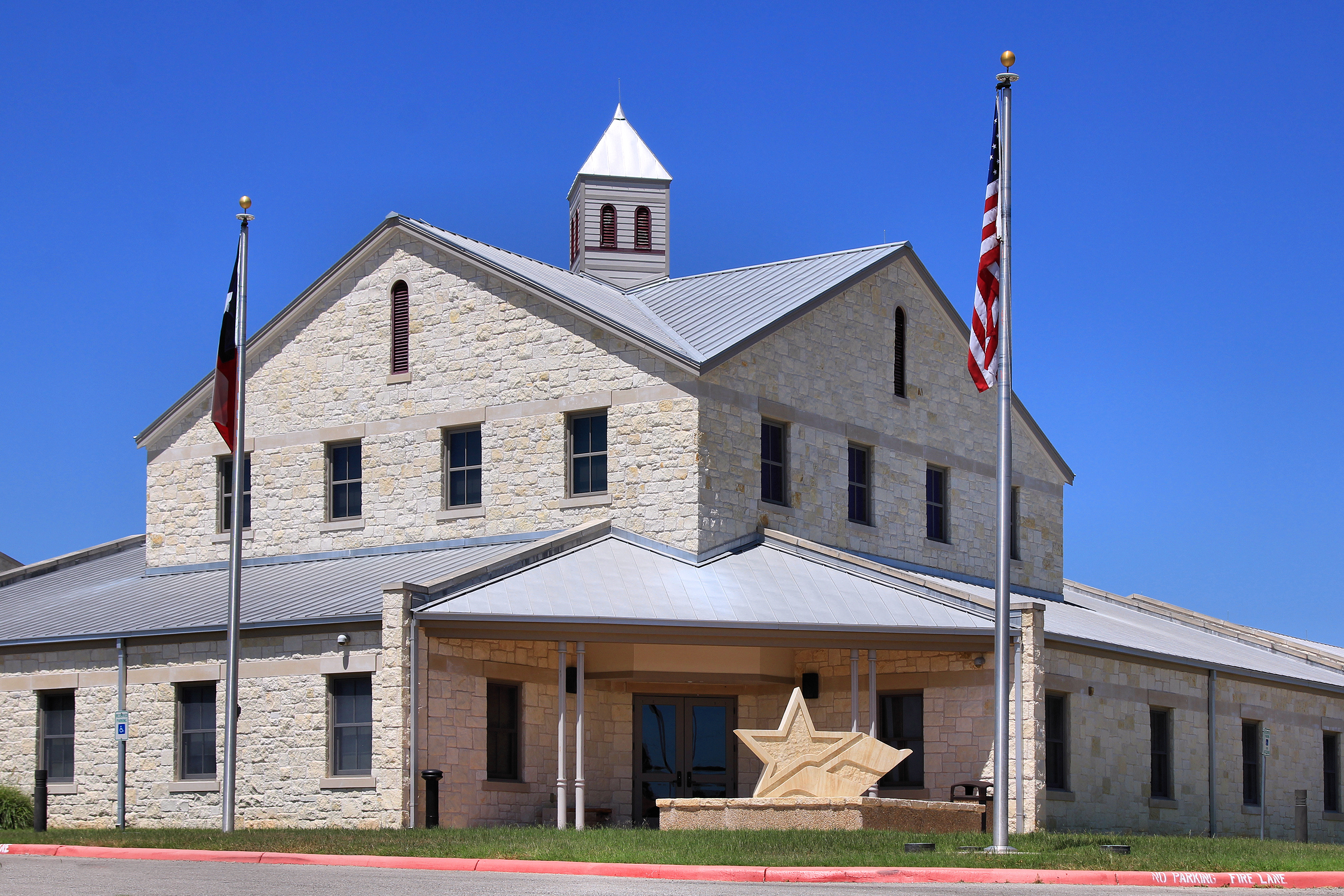 The Hill Country University Center in Fredericksburg, Texas, United States is an off campus site for Texas Tech University and Central Texas College.